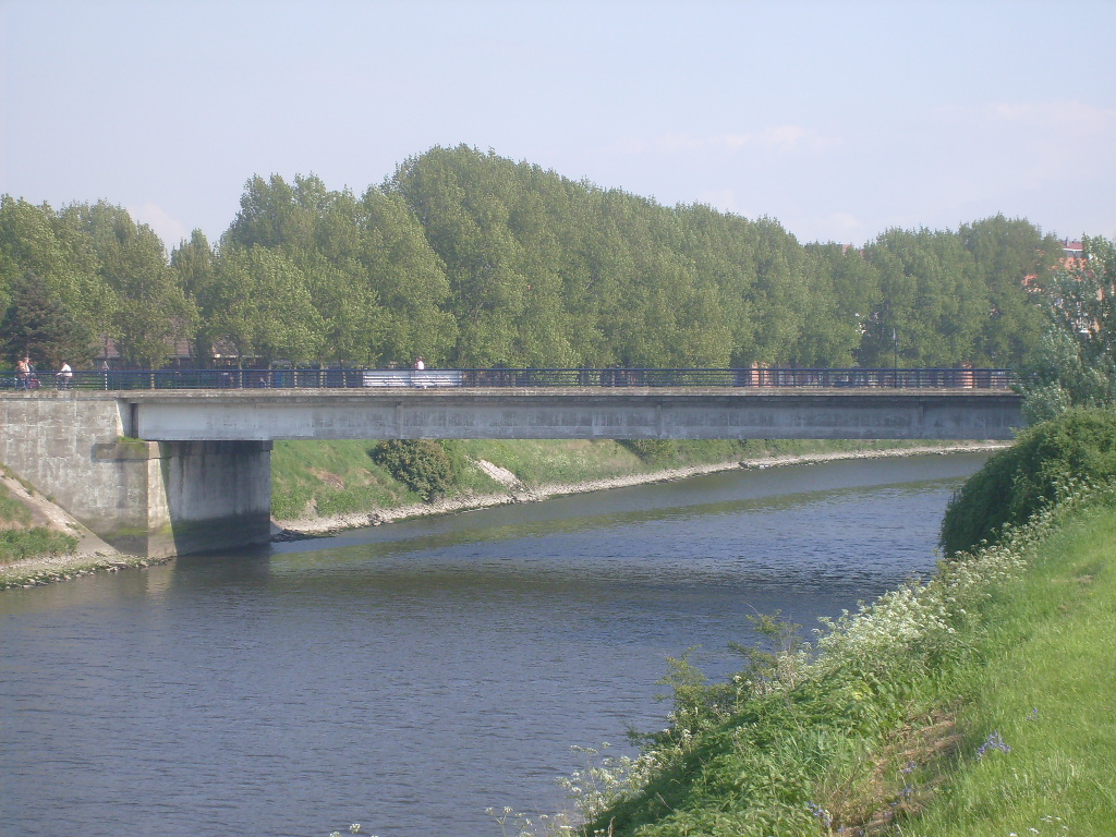 "Bridge of baths " Dunkirk